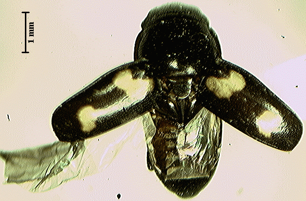 Family: Nitidulidae Sub-Family: Cryptarchinae Genus/species: Glischrochilus quadrisignatus (Say) Captured at Québec City (Canada), 1 septembre 2004 Author: Pierre-Marc Brousseau (Trépas)